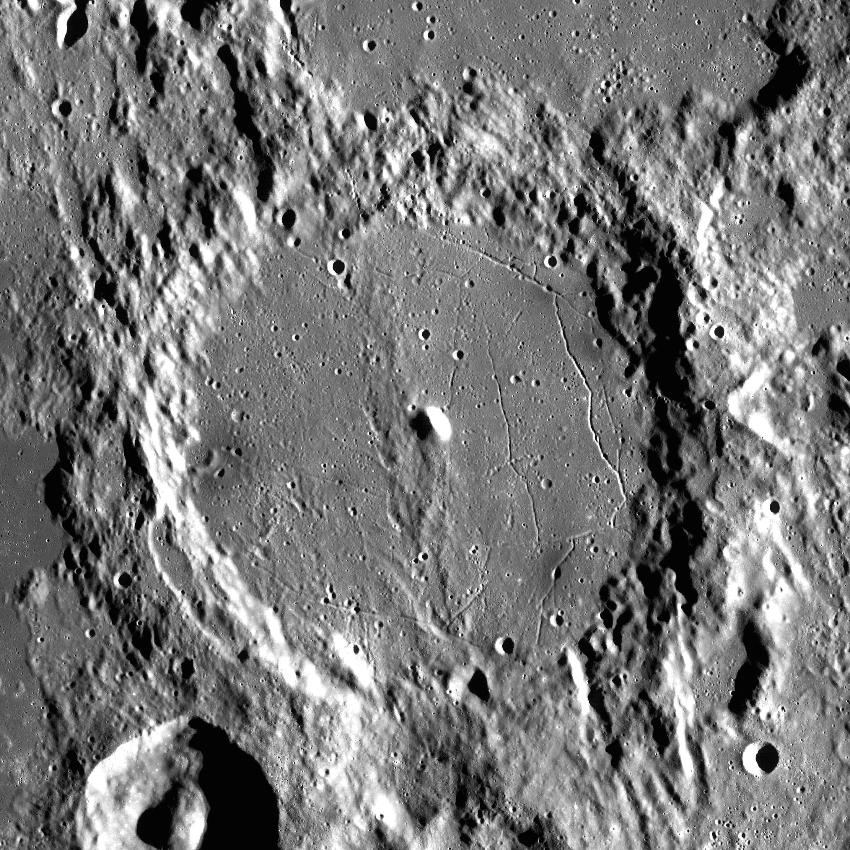 Crater Alphonsus on the Moon. Mosaic of photos by Lunar Reconnaissance Orbiter, made with Wide Angle Camera. Size of the image is 170×170 km, north is approximately up, illumination is from the east.